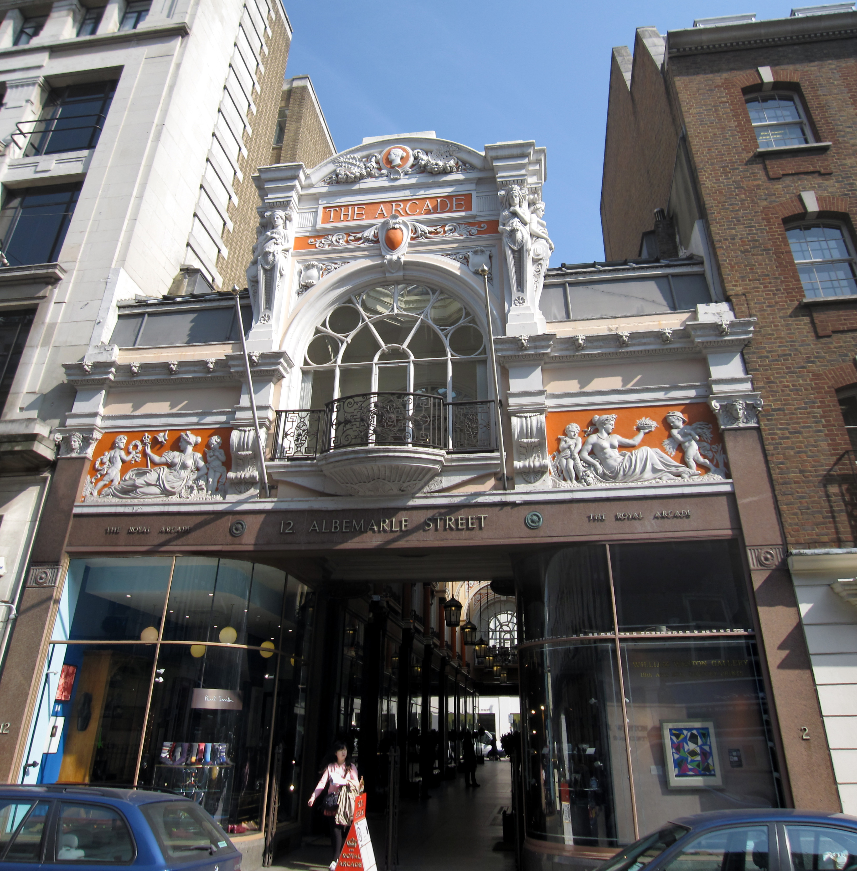 Royal Arcade in London on 12 Albermarle Street.